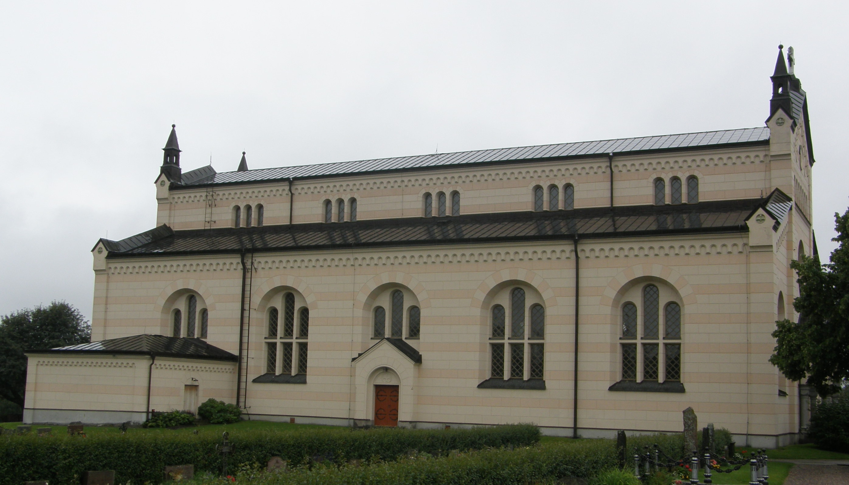 Delsbo church